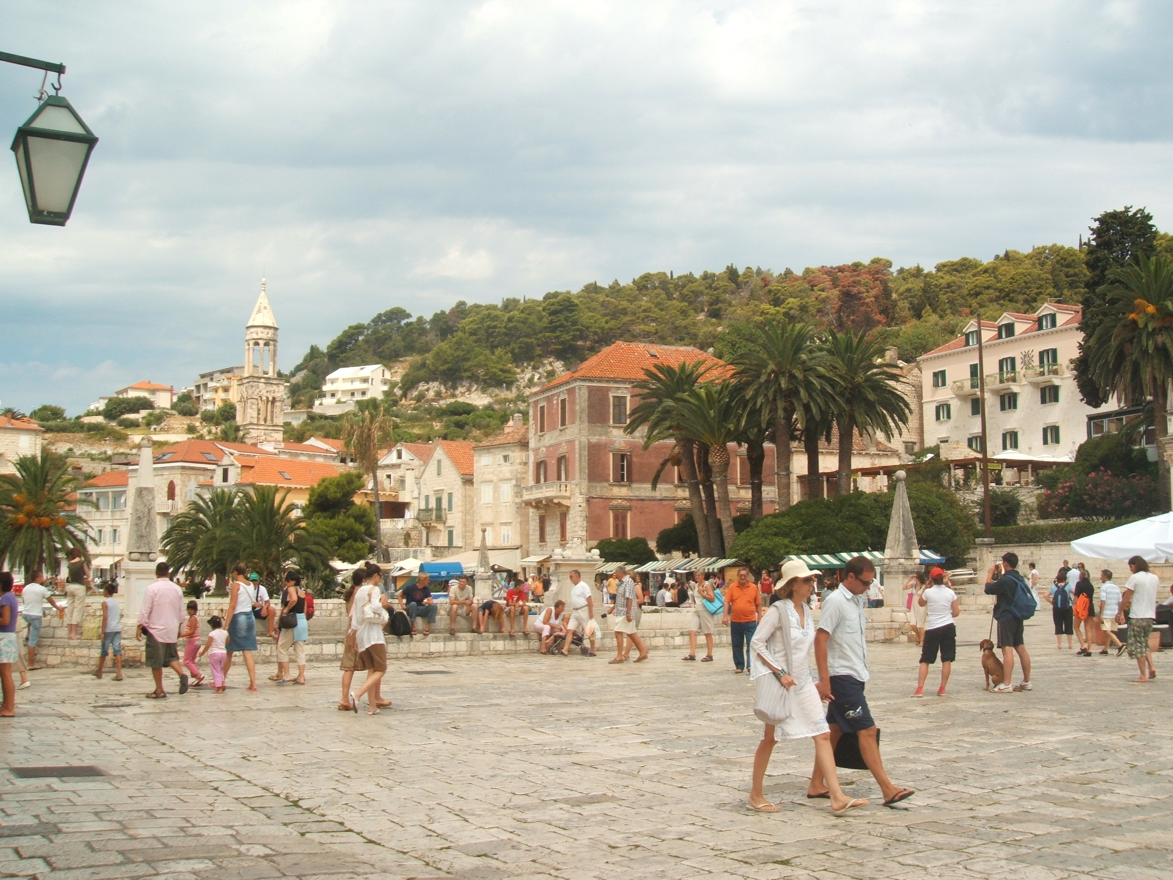 The main sqaure in Hvar